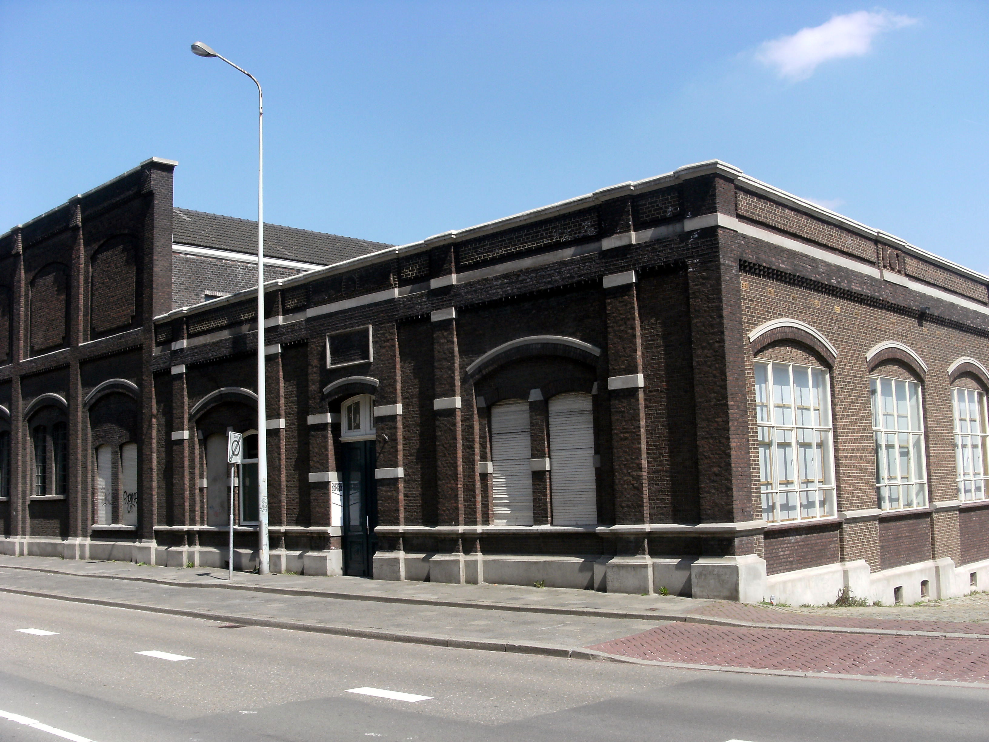 2013-05-04 in Maastricht; Timmerfabriek.